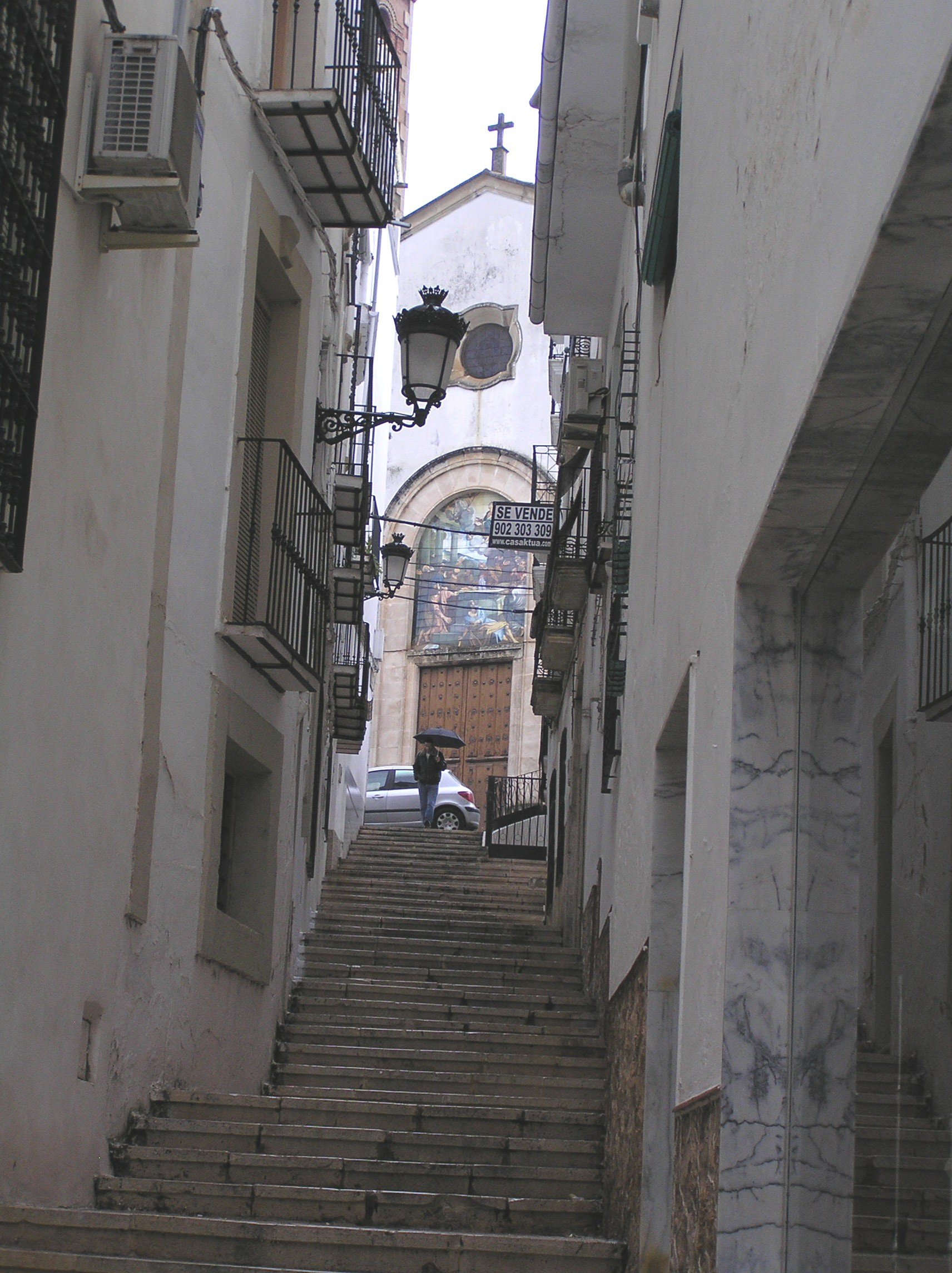 Beas seis